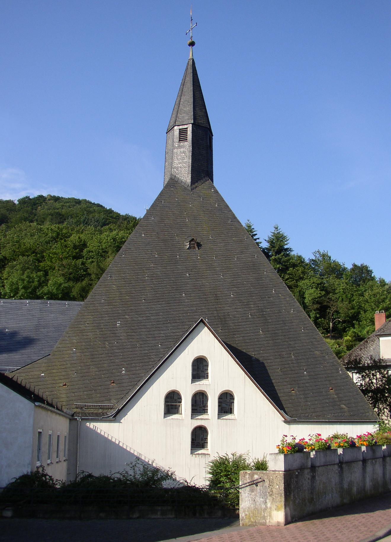 Church in Andernach-Namedy in Rhineland-Palatinate, Germany